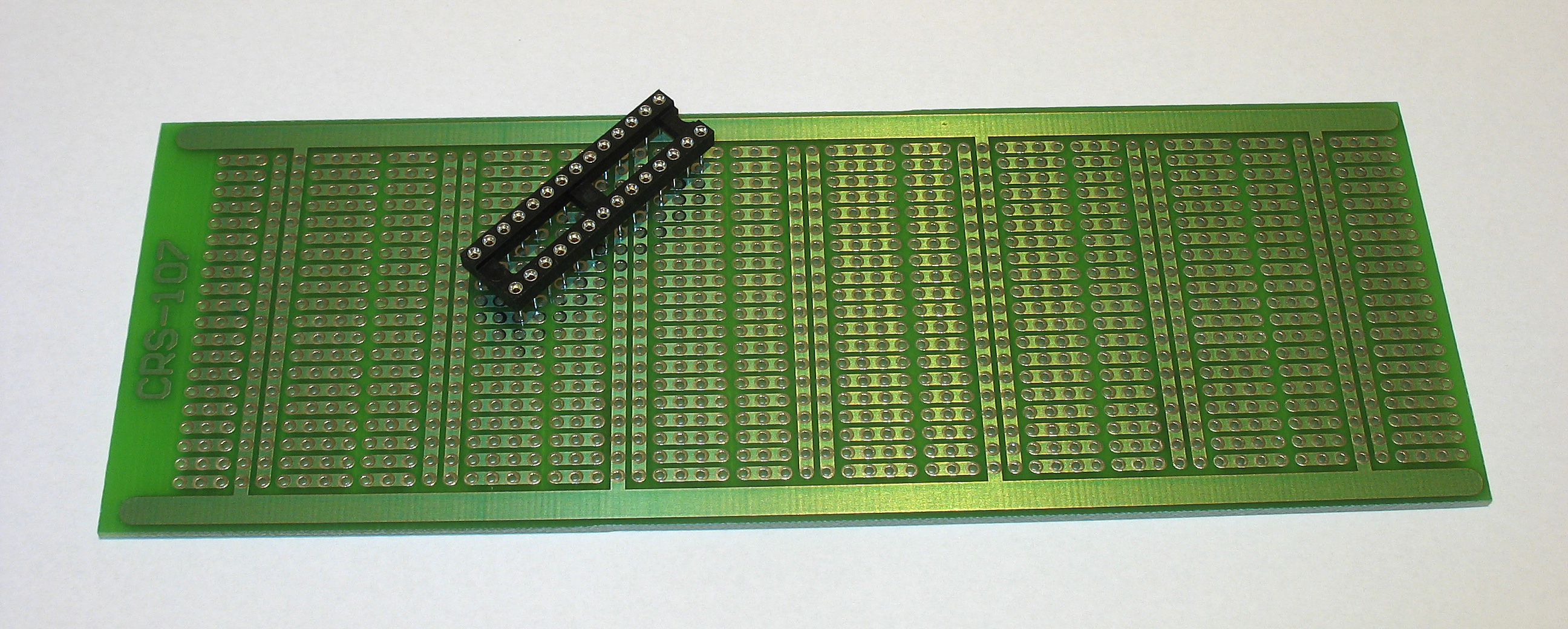 Prototyping board